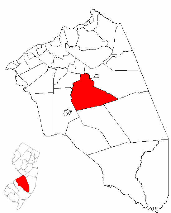 Map of Burlington County highlighting Southampton Township